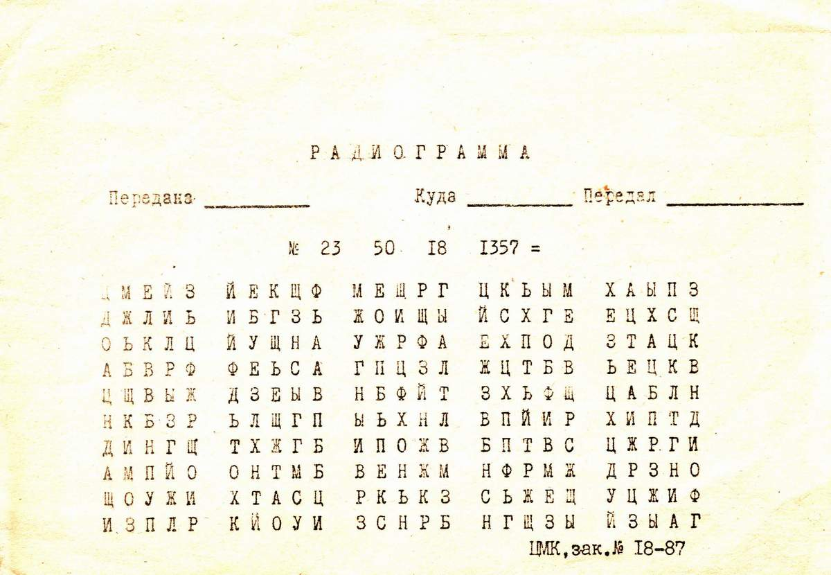 Radiogramm of letters. Was used for high-speed telegraphy trainings and competions in USSR.